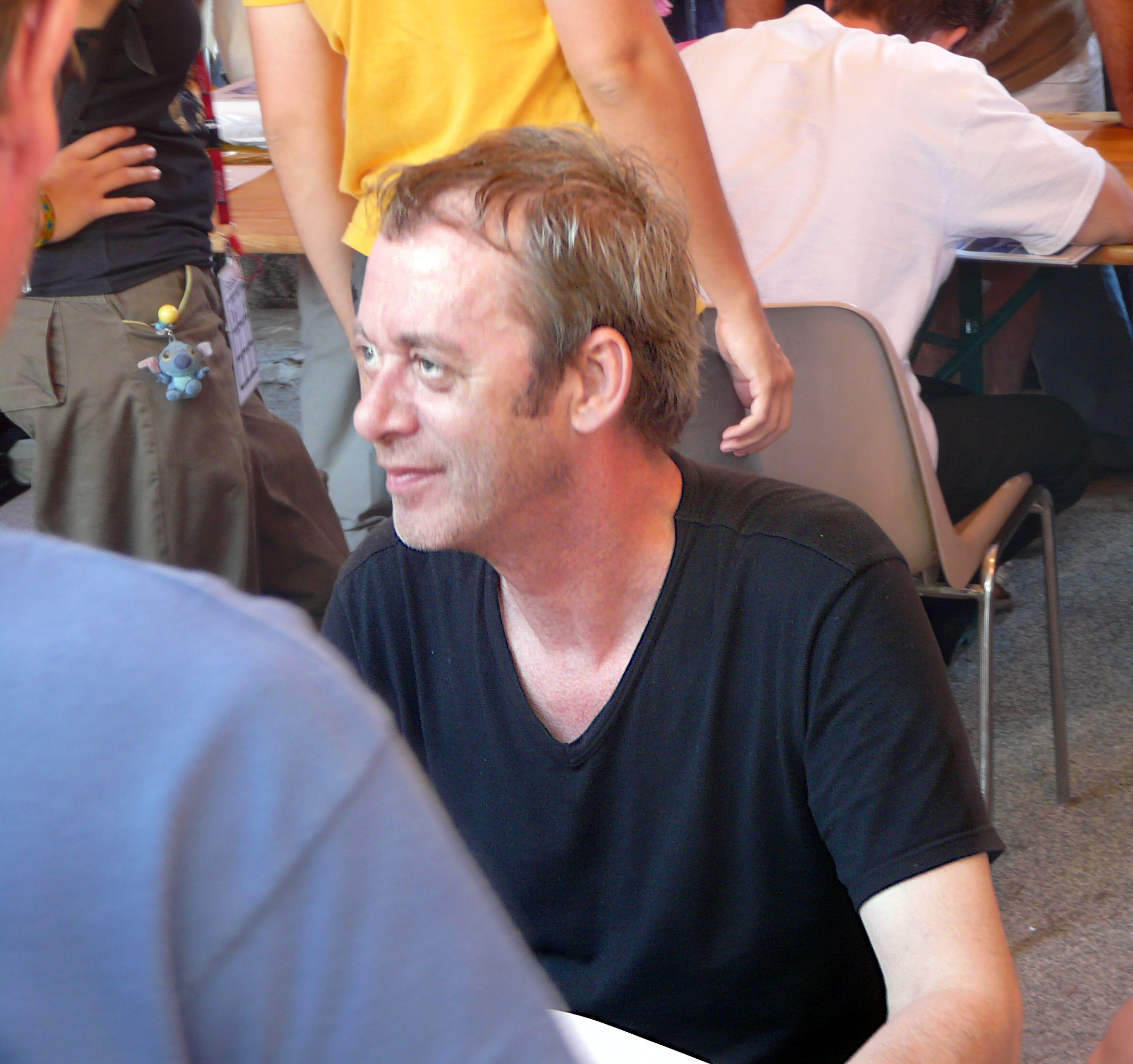 Photographs taken during the International Comic Festival of Sollies Ville, France